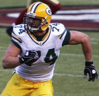 Green Bay Packers defensive end Aaron Kampman in action in a preseason game against the San Francisco 49ers on August 16, 2008.